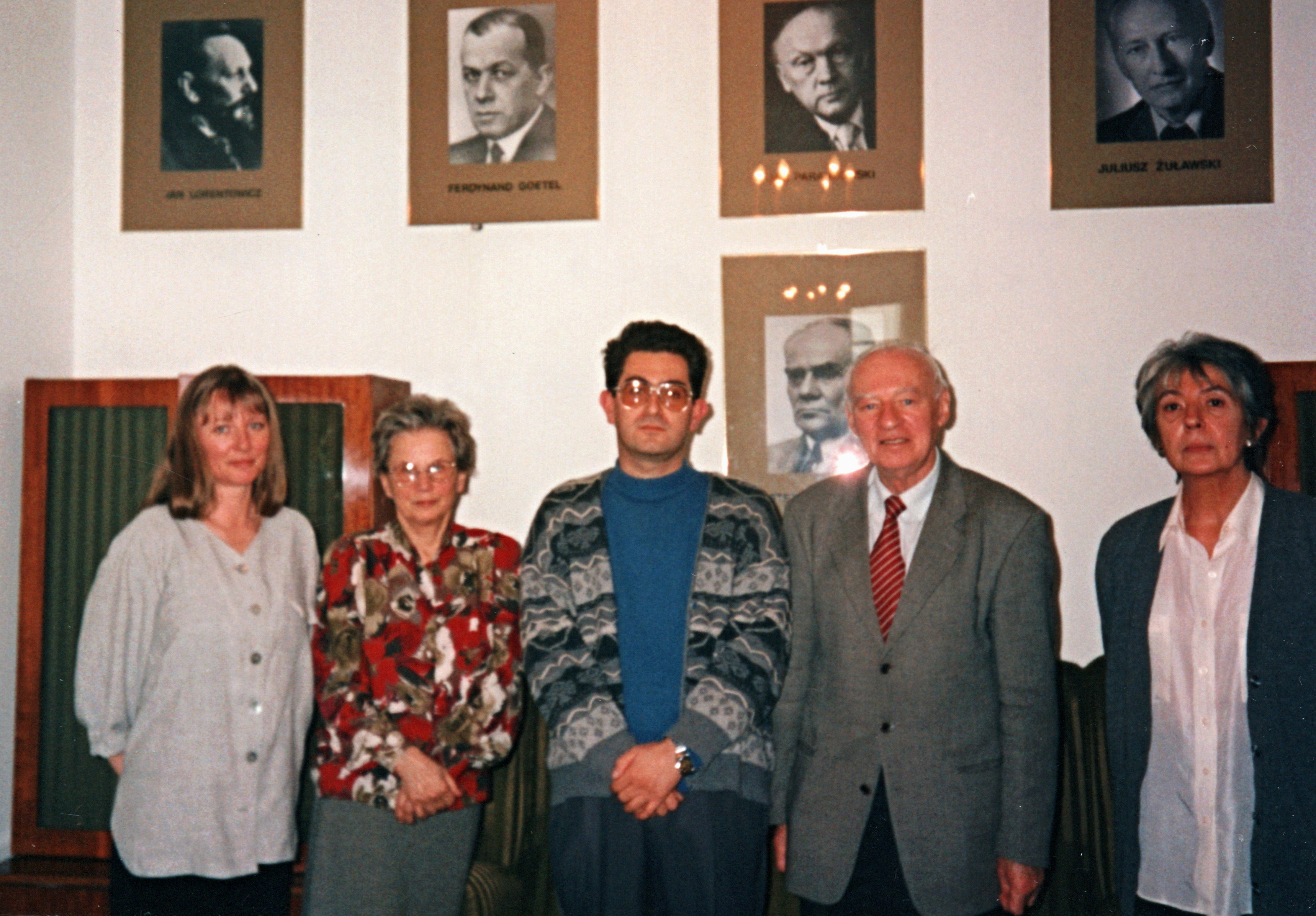 Meeting at Polish PEN Club in Warsaw. In the middle the president Polish writer Jacek Bocheński, to his right Iranian poet and specialist in Polish studies Alireza Douatshahi. Also present: librarian Ewa Zwierzchowska-Gisges. In the background portraits of former presidents of the Polish Pen-Club with its founder, writer Stefan Żeromski bottom center.